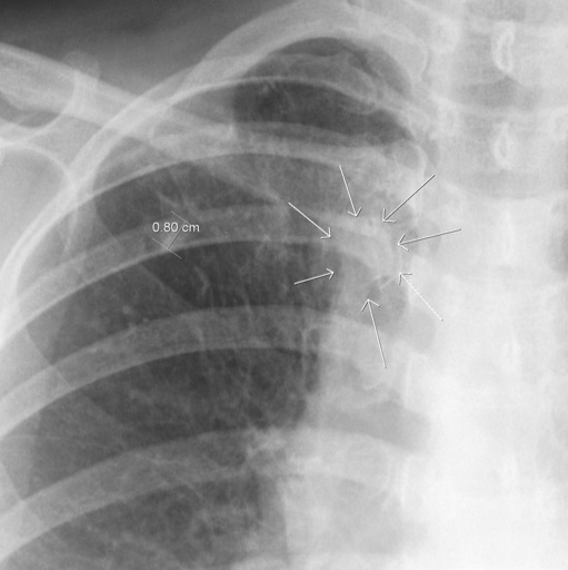 TITLE: Air-Crescent Sign DESCRIPTION:The arrows denote an ill-defined nodular opacity in medial aspect of right upper lobe with ill-defined rim of lucency surrounding it.